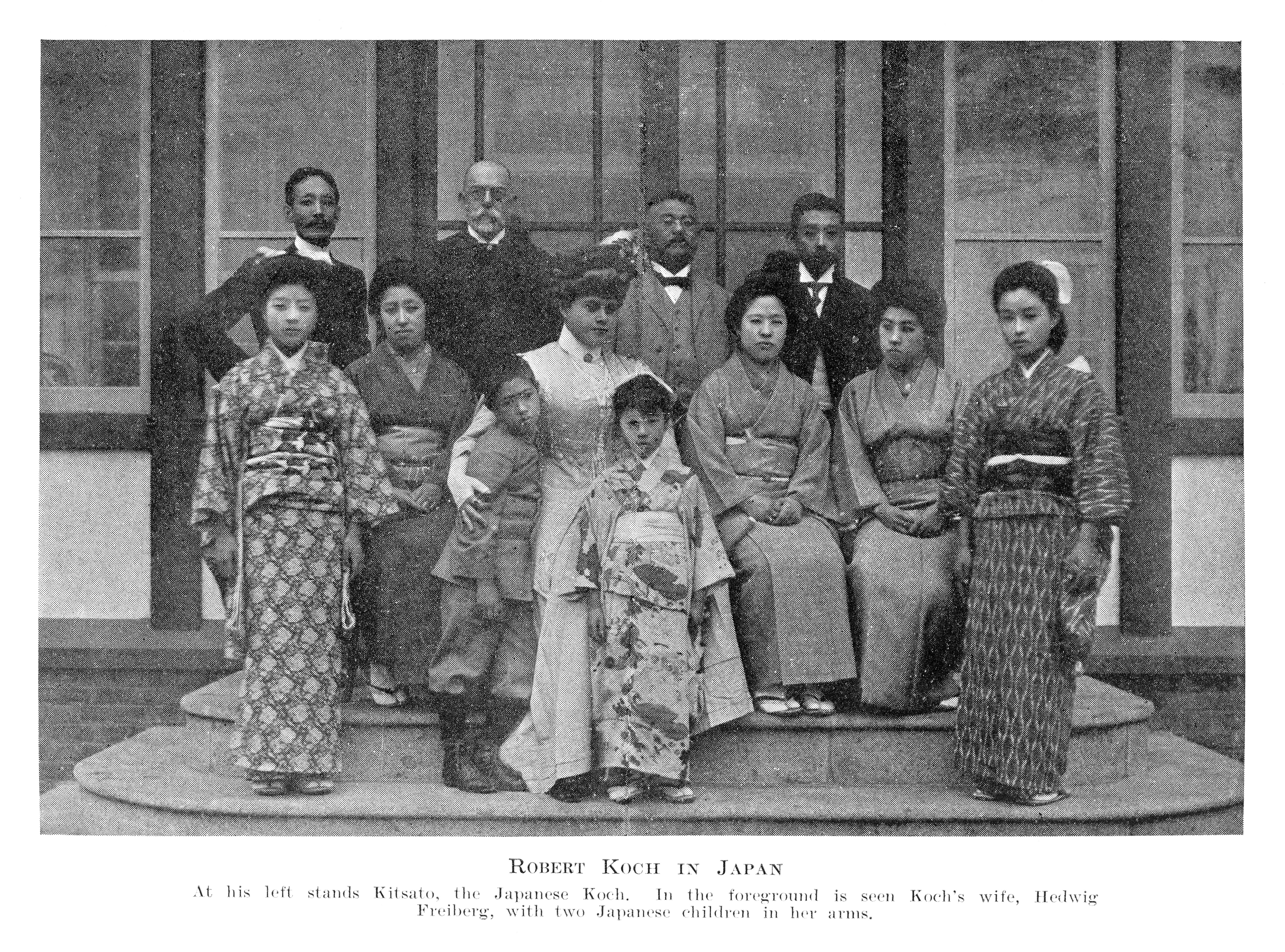 Robert Koch in Japan. At his left stands Kitasato the Japenese Koch. In the foreground is seen Koch's wife, Hedwig Freiberg, with two Japanese children in her arms. General Collections Keywords: Robert Hermann Koch; Shibasaburo Kitasato